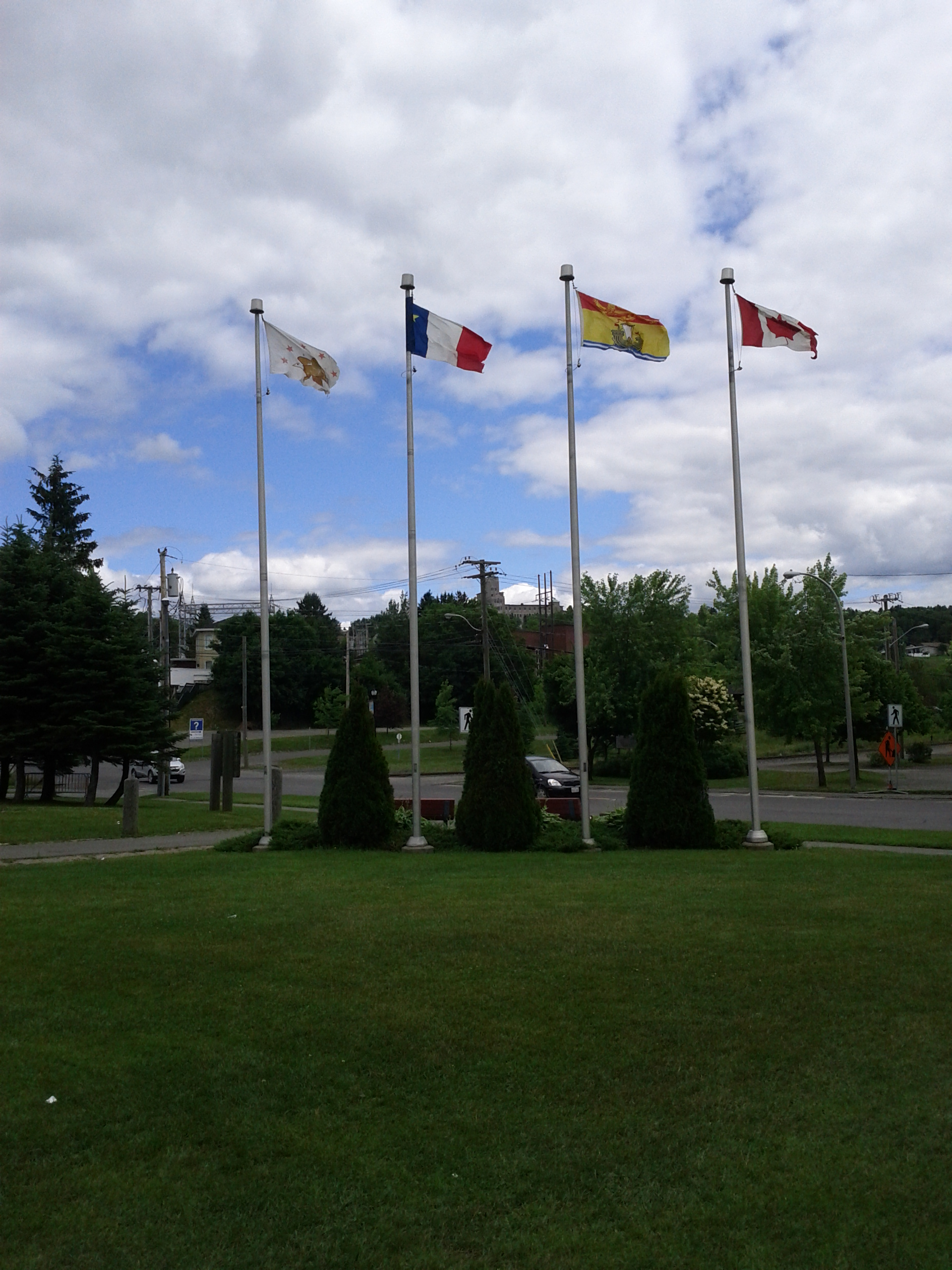 The Madawaska Republic, Acadia, New Brunswick and Canada flags flying in Edmundston, New Brunswick.